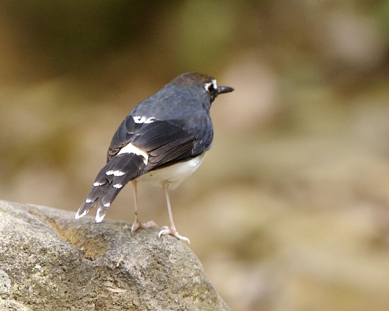 Sunda Forktail - female Enicurus velatus Local name, Indonesian: Meninting kecil 10th. August 2007 Location : Gunong Gede, Java, Indonesia Distribution: _Q0S8308